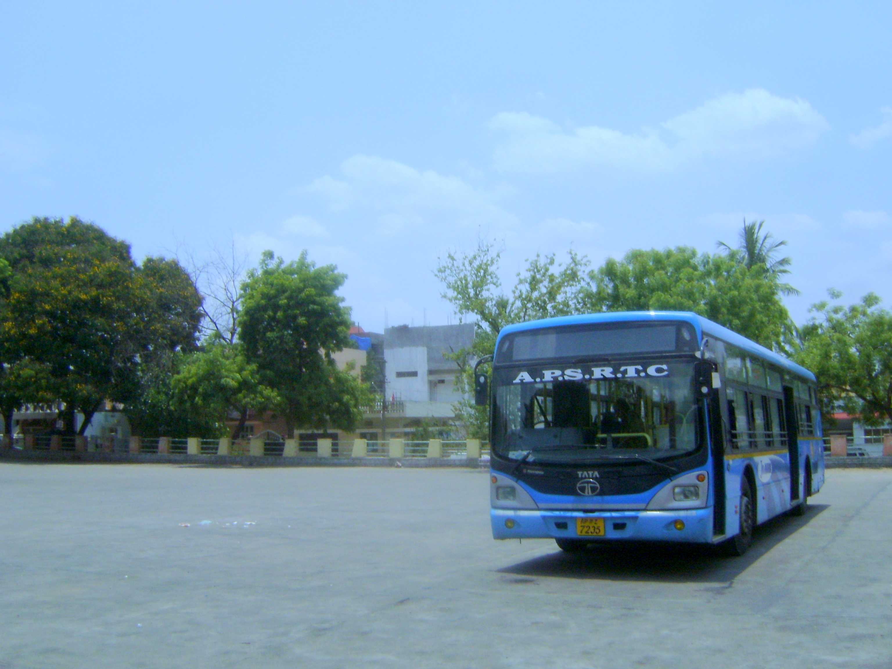 TATA marcopolo low floor bus